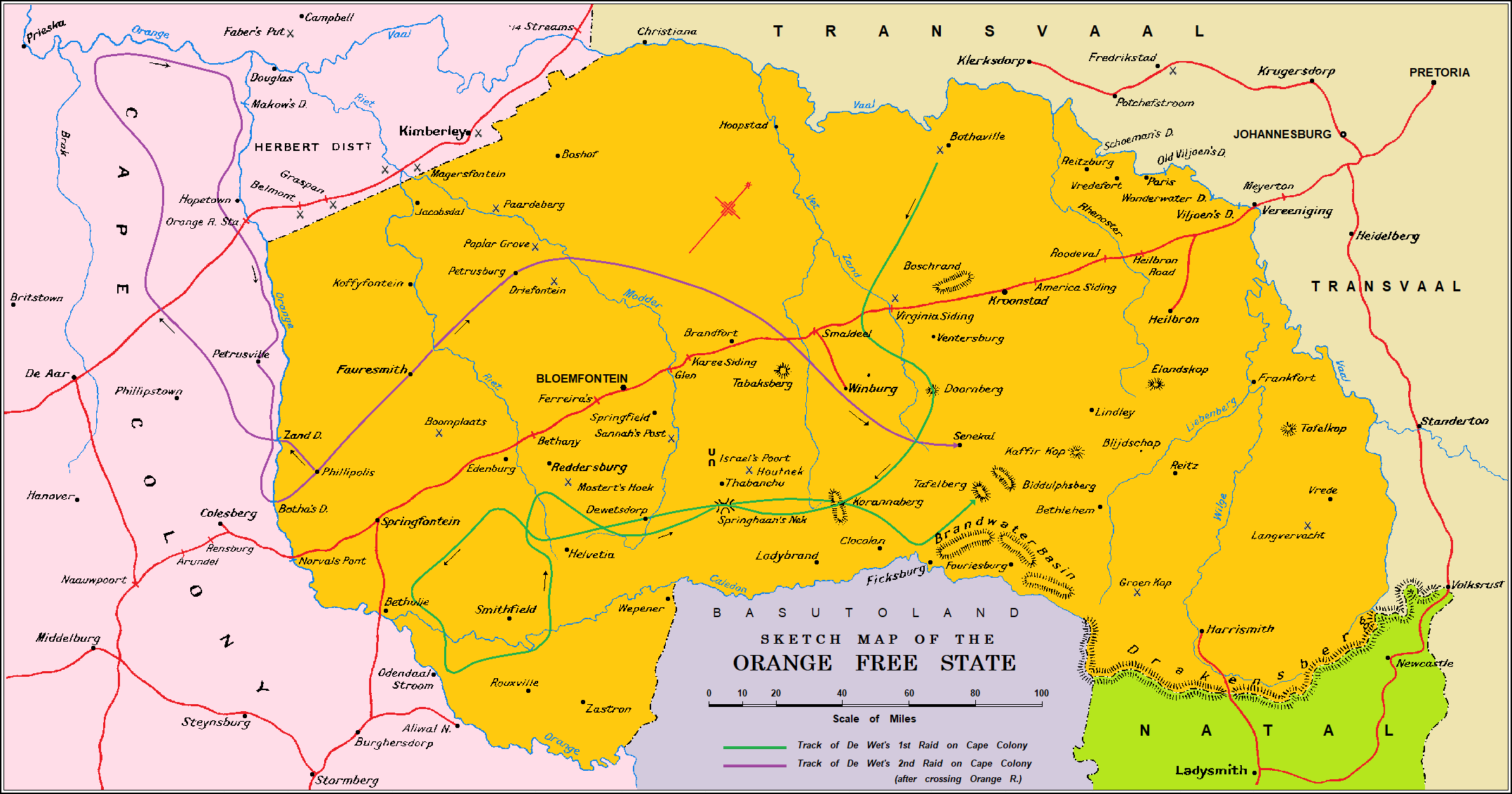 Railway lines Rivers and streams Second pursuit of de Wet including his first attempt to penetrate the Cape Colony Third pursuit of de Wet including his second attempt to penetrate the Cape Colony The first pursuit of Christiaan de Wet (not shown here) was from 15 July to 14 August 1900, and began at the Brandwaterkom. The second pursuit began just south of Bothaville, where De Wet's commando was overrun on 6 November 1900 by Col. Le Gallais. The pursuit lasted at least until 14 December 1900, when the Boers broke through at Sprinhaansnek. After this, De Wet tried and failed to penetrate the Cape Colony. The pursuit was from January to February 1901 (only shown from Philippolis), where De Wet managed to cross the Orange River, but he had to return to the Free State after heavy resistance.